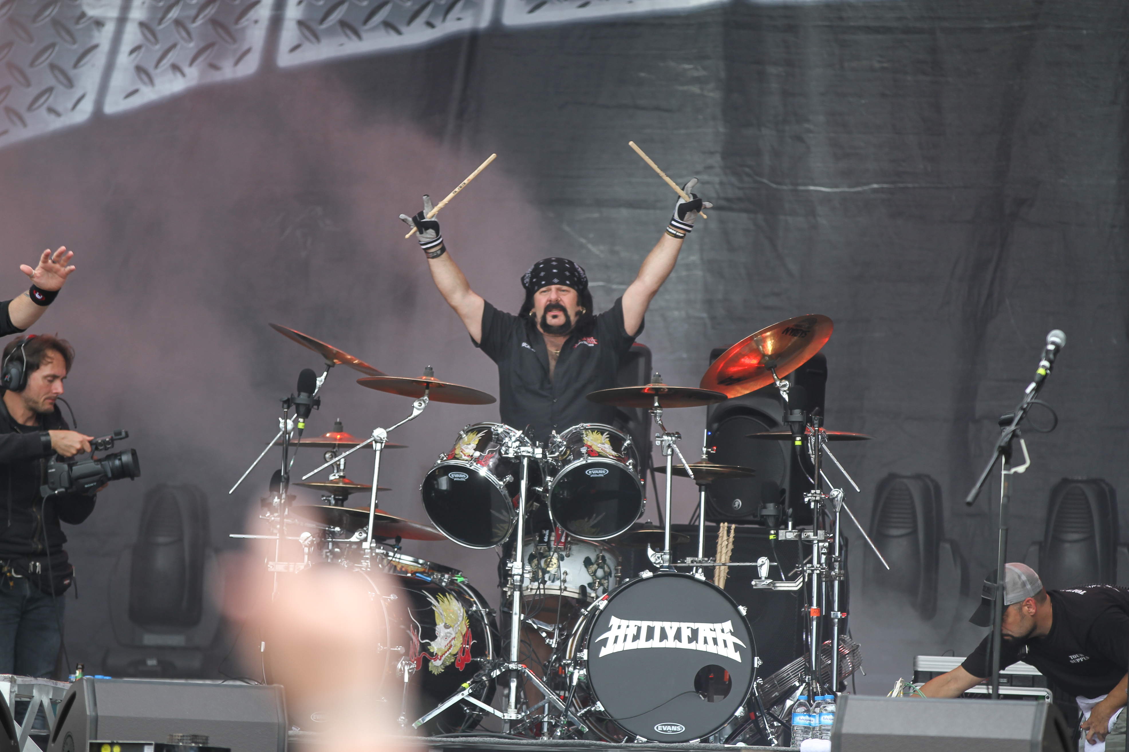 Hellyeah performing at With Full Force Festival 2013